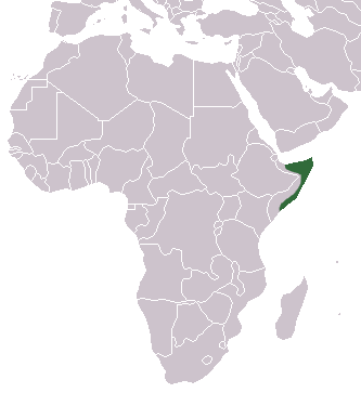 Somali Hedgehog (Atelerix sclateri) range